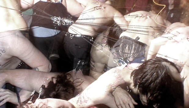 Several people involved in an "energy pull", a ritual that involves using hooks through the skin to connect a group who then release energy in a spiritual way to achieve a common goal.